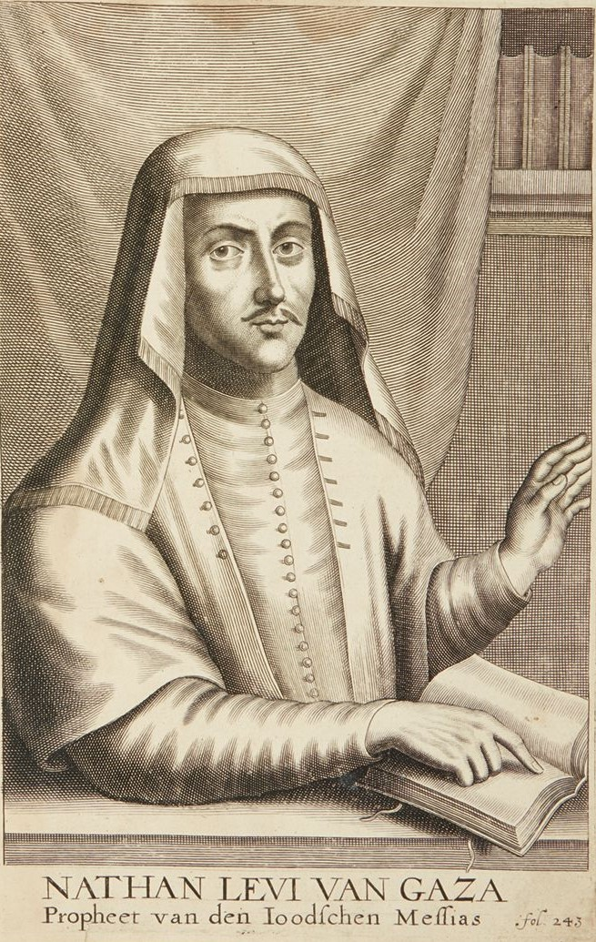 Portrait of Nathan of Gaza, from 1906 Jewish Encyclopedia.